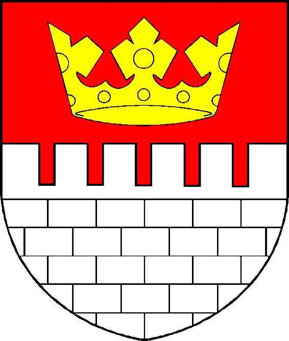 Coat of arms of municipality Králův Dvůr, Beroun District, Czechia.